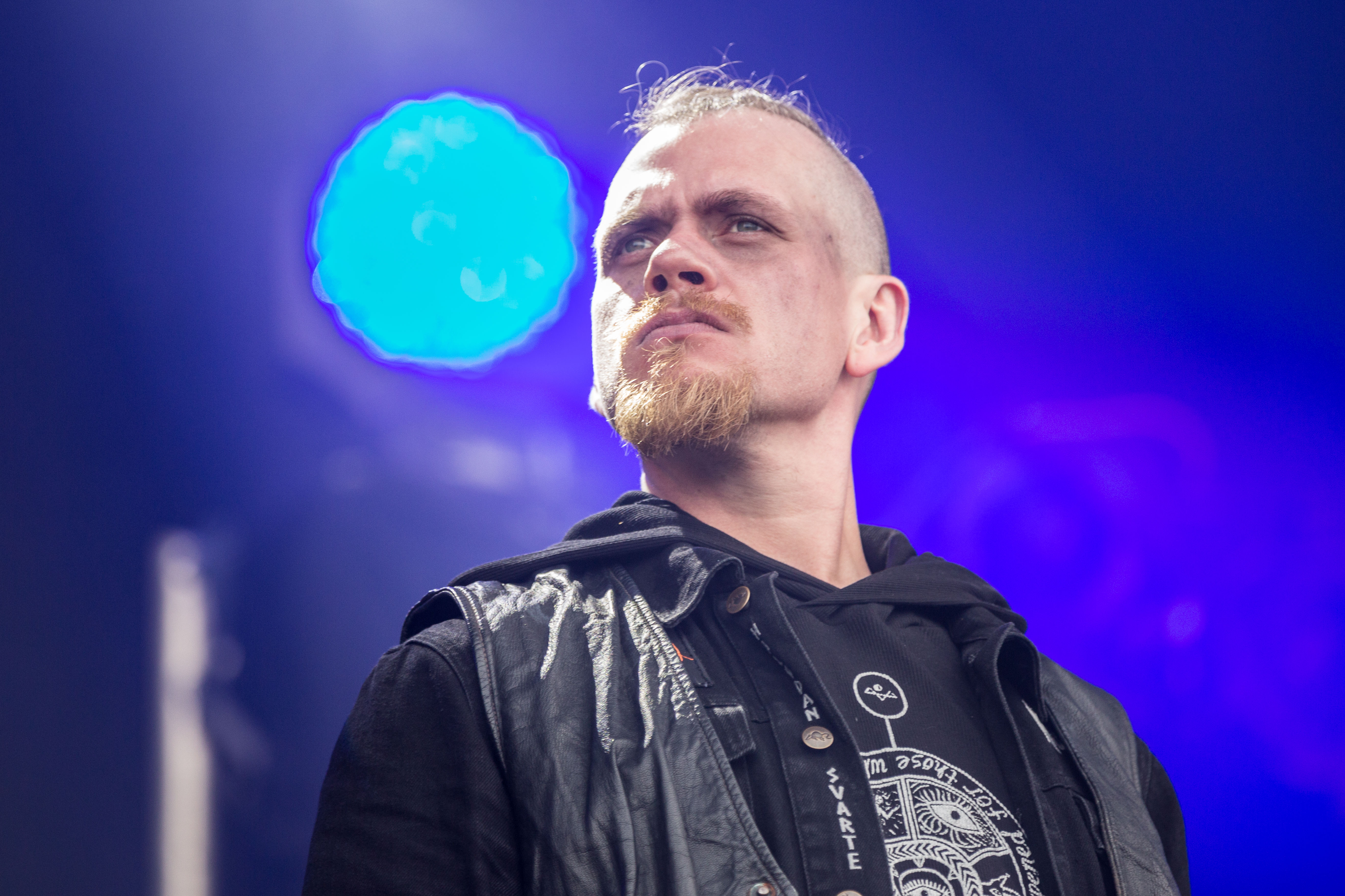 The Norwegian progressive black metal band Hades Almighty at the Party.San Metal Open Air 2017 in Obermehler-Schlotheim/Germany.